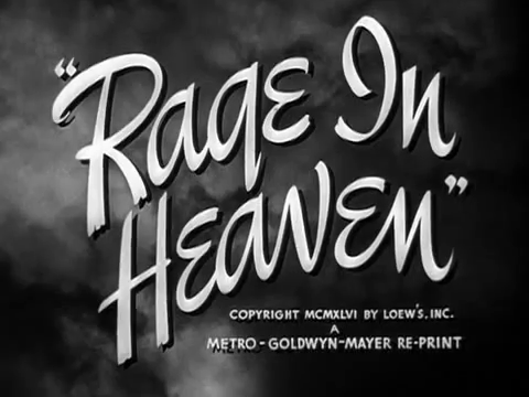 Rage in Heaven, by W.S. Van Dyke, Robert B. Sinclair and Richard Thorpe (1941)